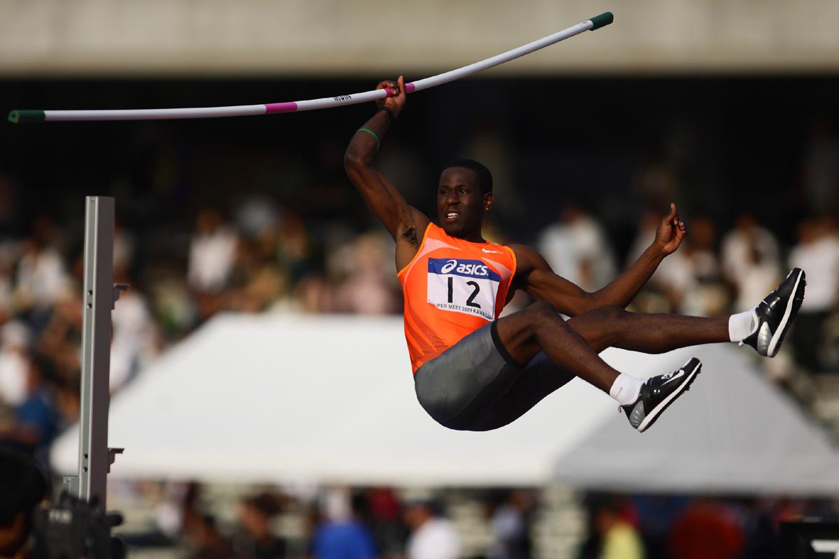 SEPTEMBER 23, 2009 - Track & Field : Men' High Jump during the Super Track and Field Meet at Todoroki Stadium on September 23, 2009 in Kanagawa, Japan. (Photo by Tsutomu Takasu)